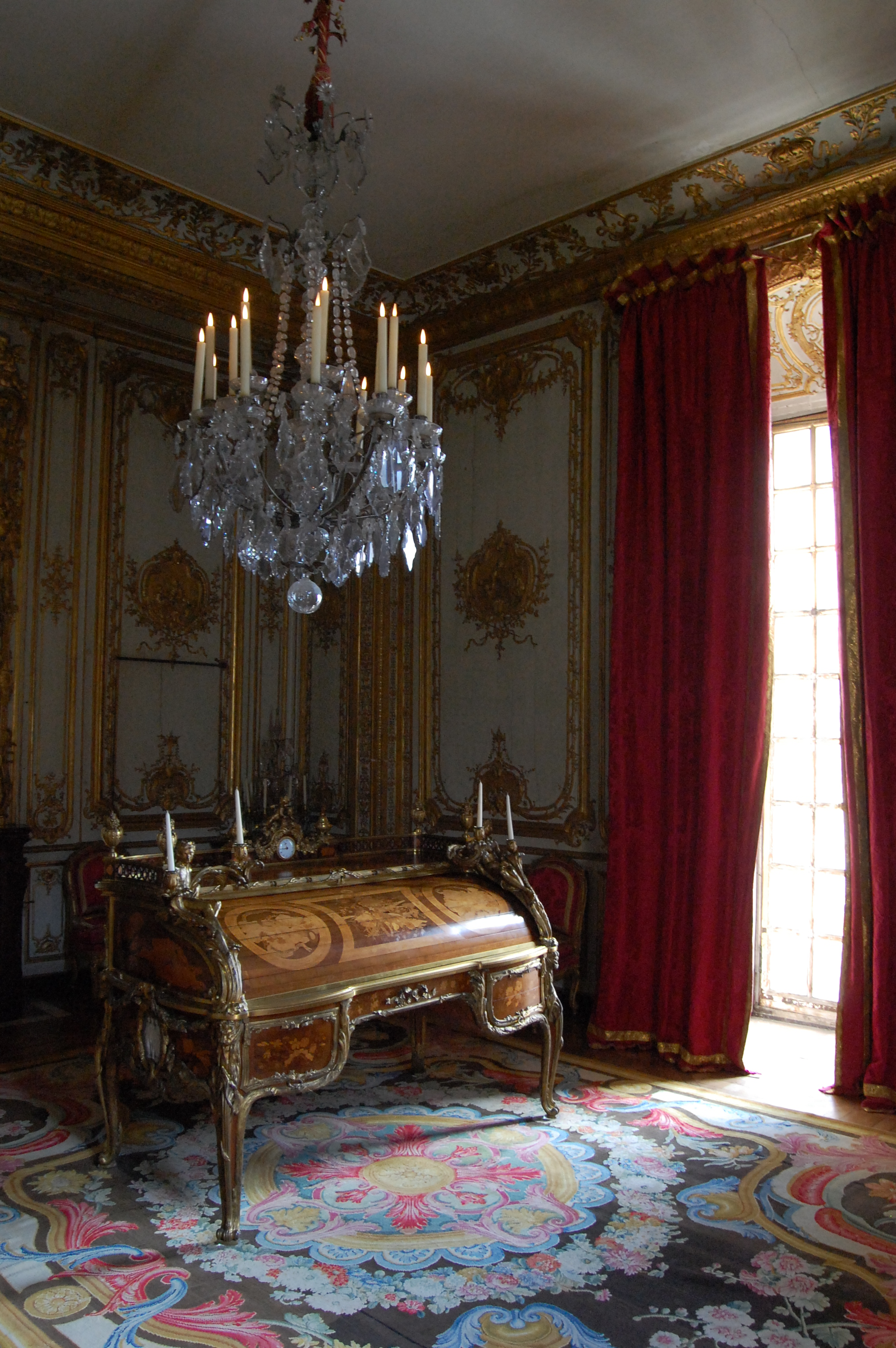 Louis XV's roll-top secretary in the Palace of Versailles